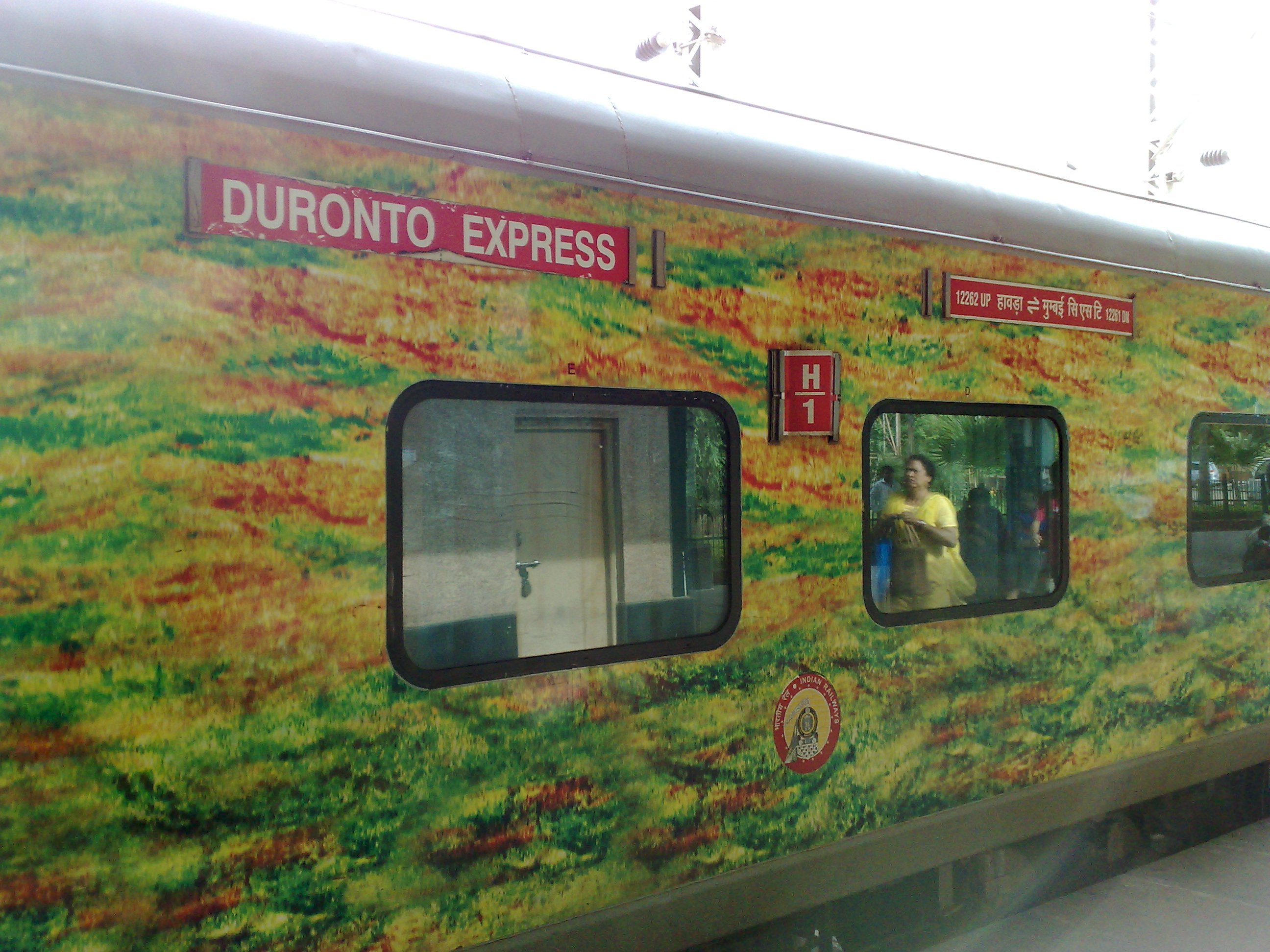 12261 Howrah Duronto Express